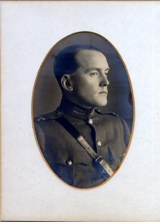 Photograph of Irish Republican Army Adjutant General Gearoid O'Sullivan.